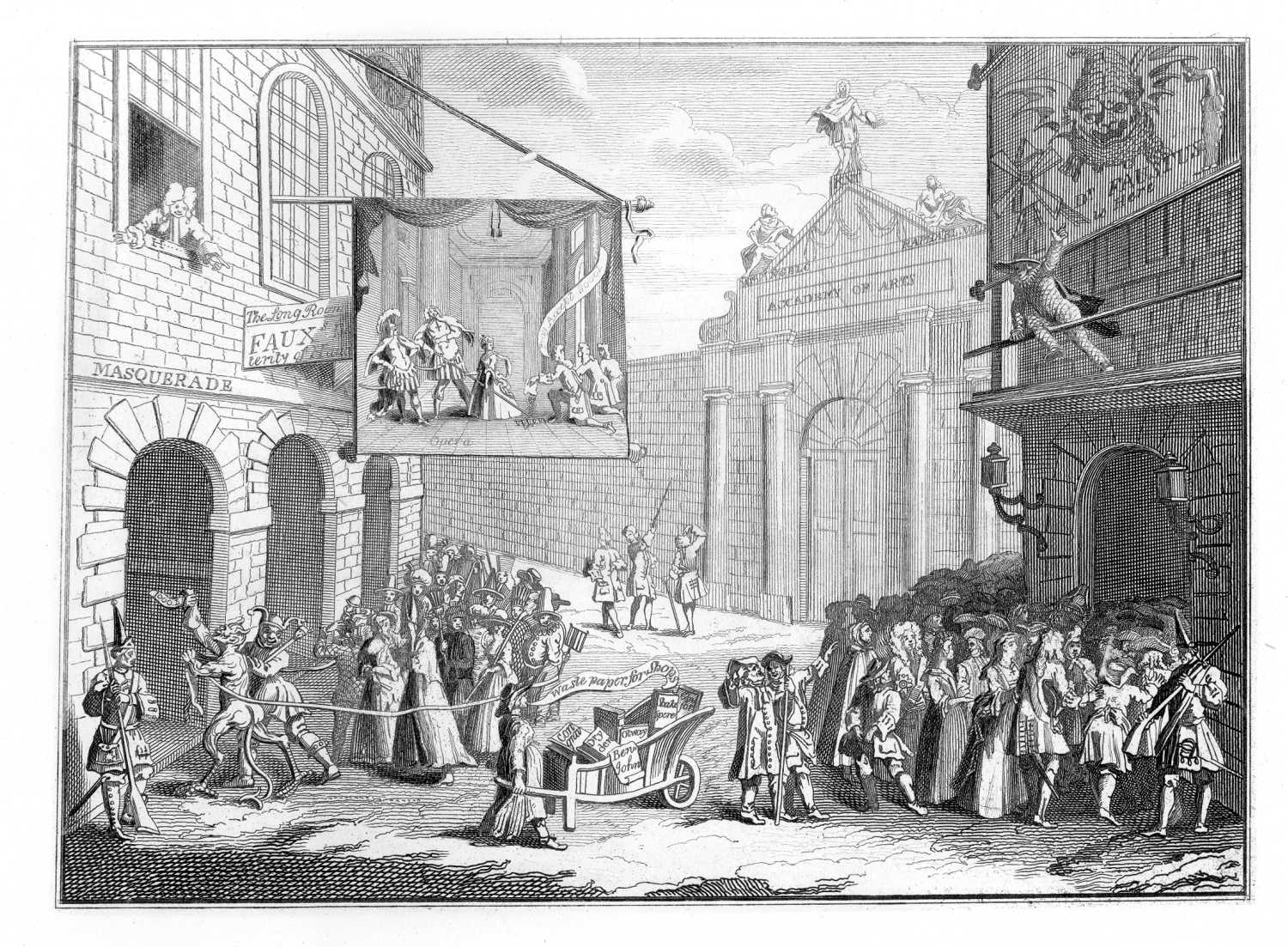 Masquerades and Operas or The Bad Taste of the Town. A 1723 satire on the questionable tastes of London society by William Hogarth. The public are shown thronging to the entertainments of Heidegger, Rich and Fawkes while the great works of literature are carted of for scrap in a wheelbarrow